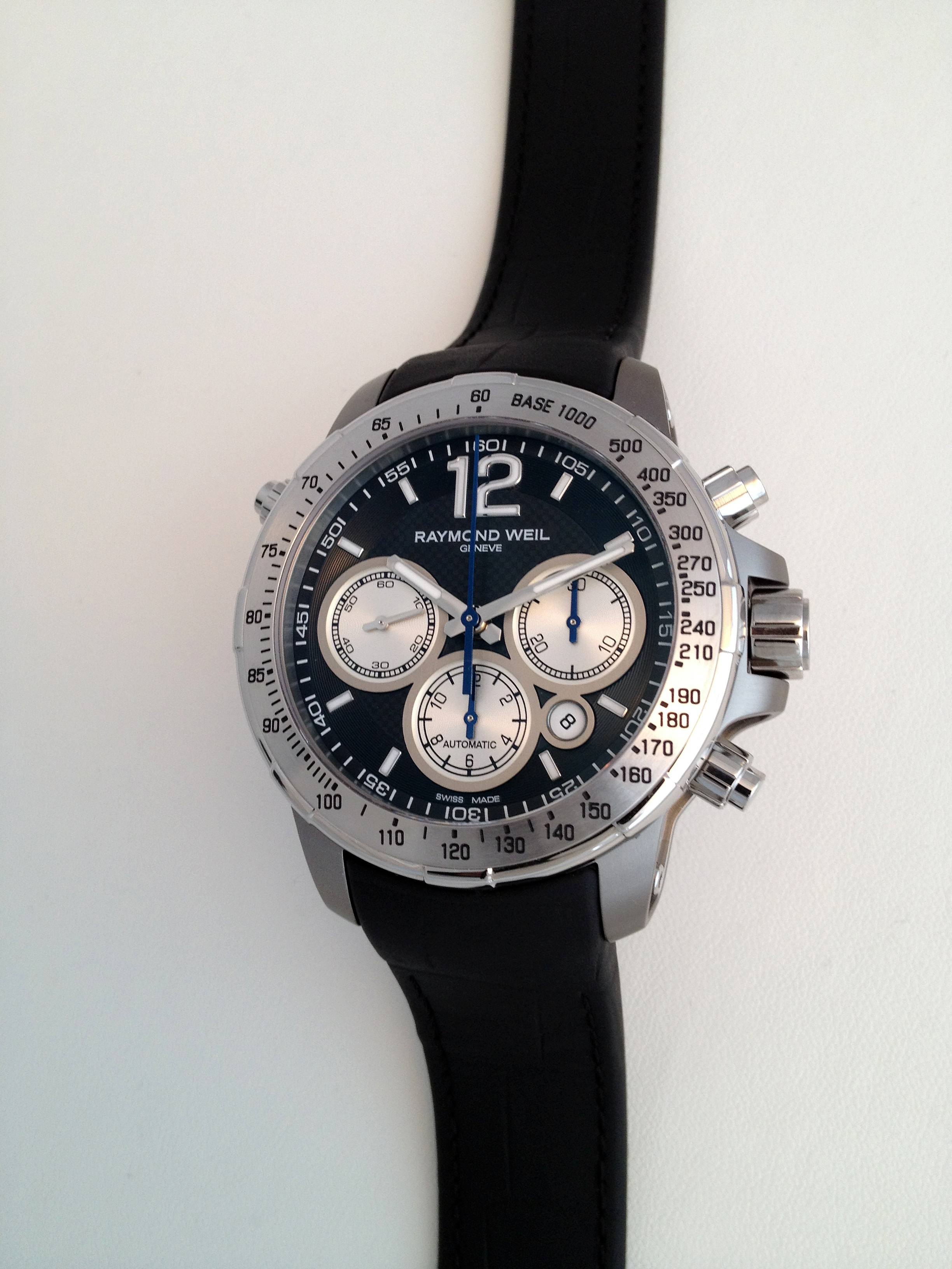 Nabucco 7700-tir-05207 - Steel and titanium - Intenso special edition